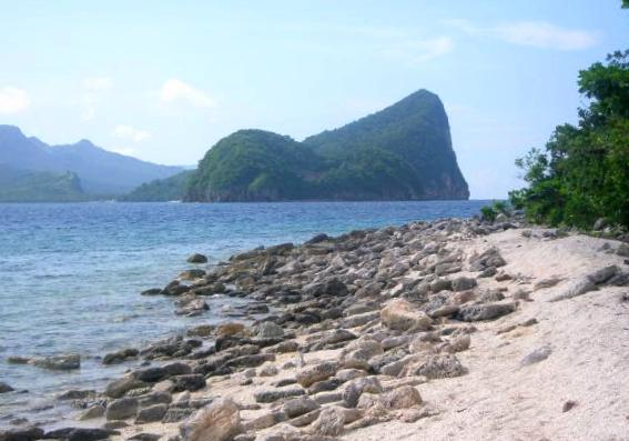 The puro island This tiny island is just 30 minutes away from the Binahian village and this is where most residents spend their holidays or any special occasions during summer time. This island has quite a strong current that extra care is highly adviced. More about Binahian on [1]